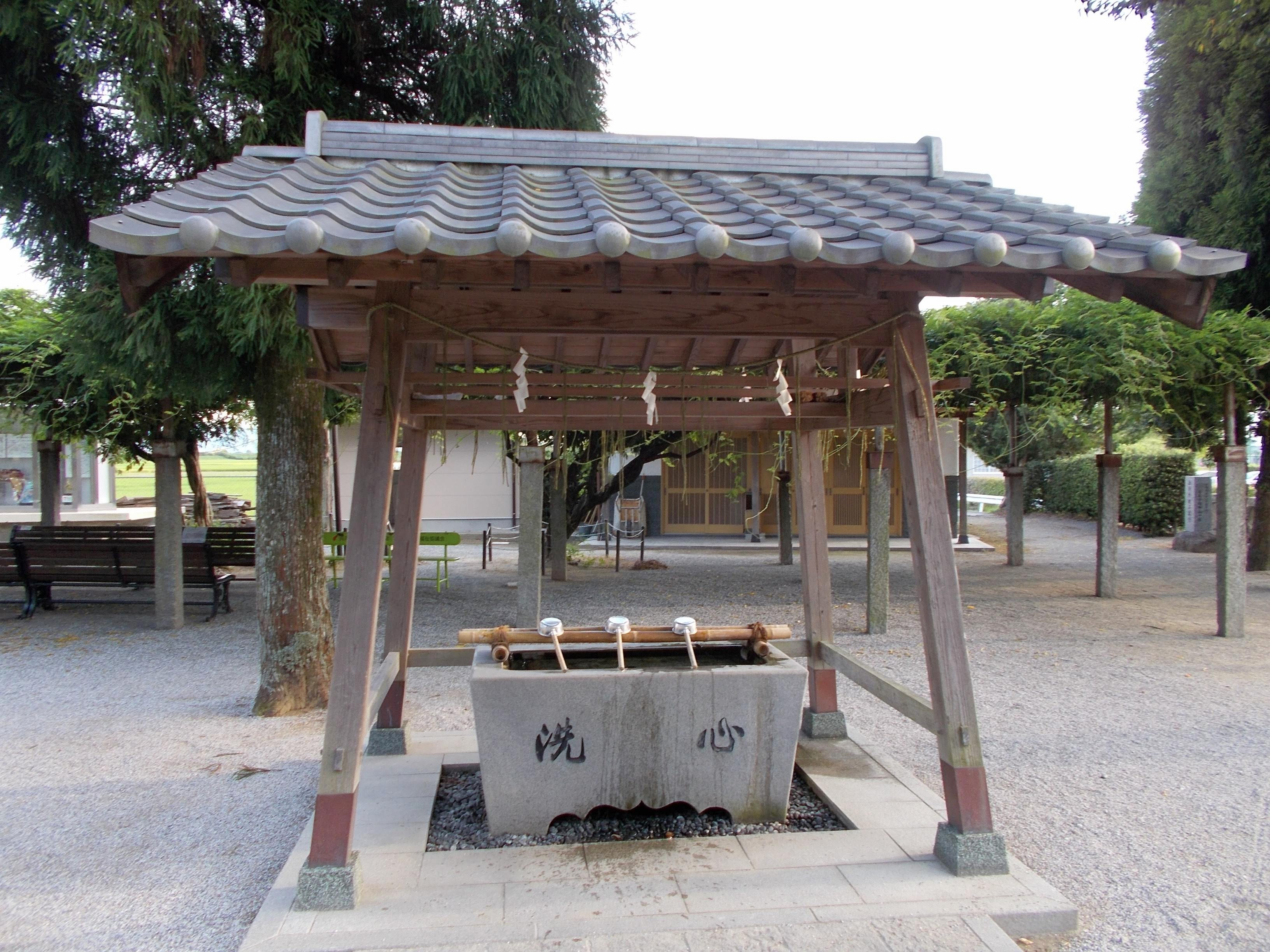 Tanabata-jinja's Chozuya, Ogori, Fukuoka, Japan